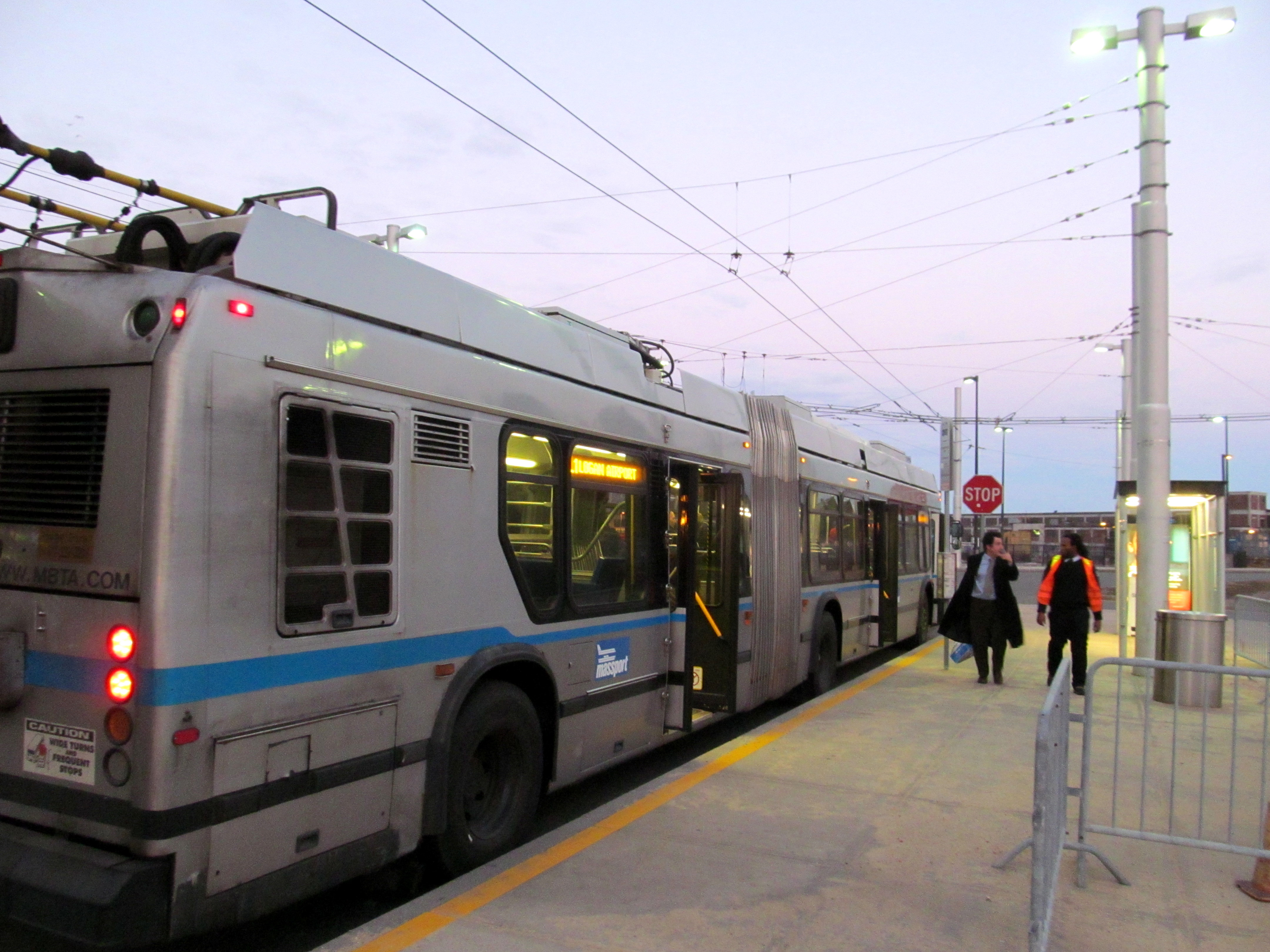 An outbound bus at the island platform at Silver Line Way